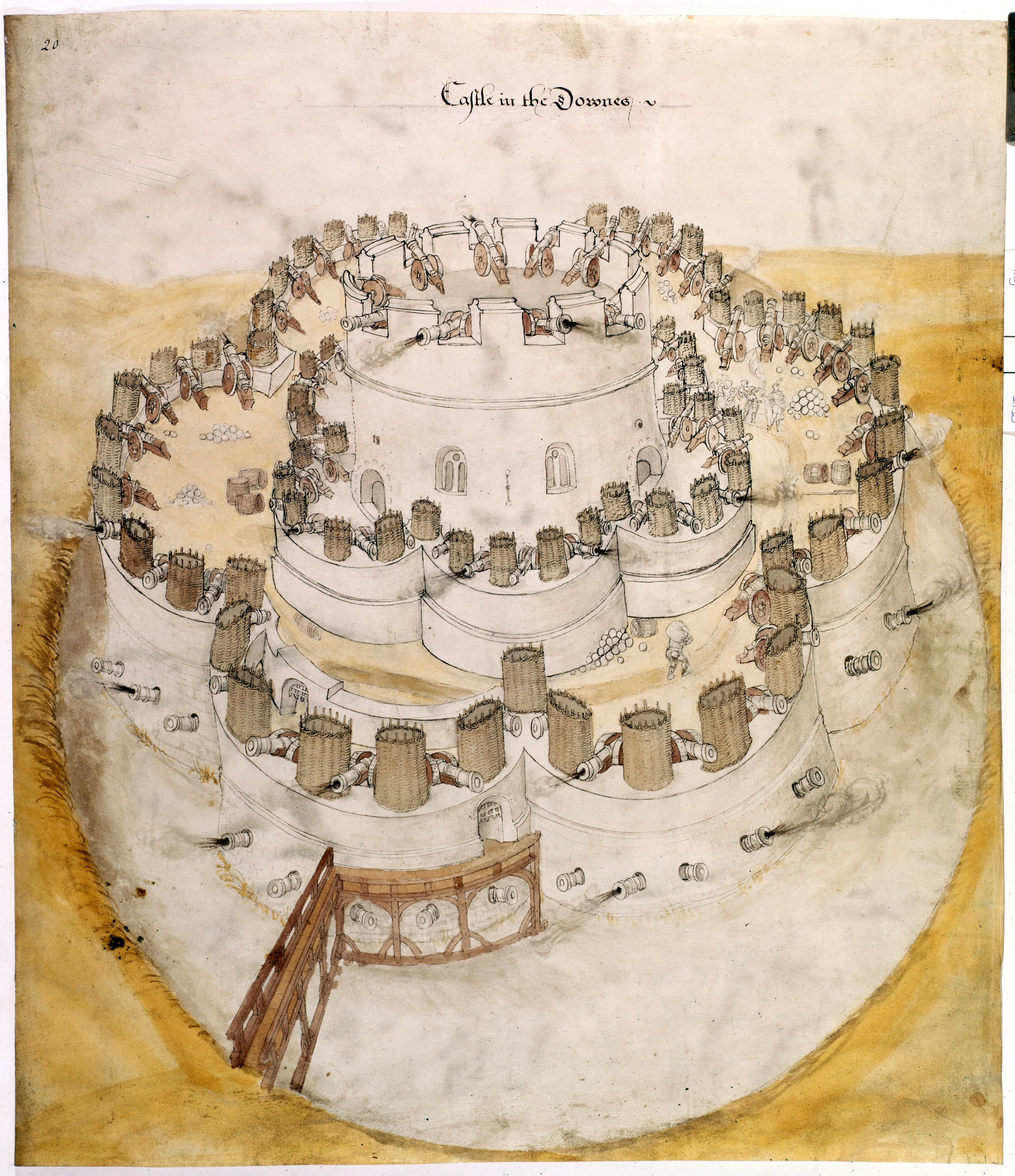 1539 draft of the future Deal Castle in Kent, presented to Henry VIII for approval